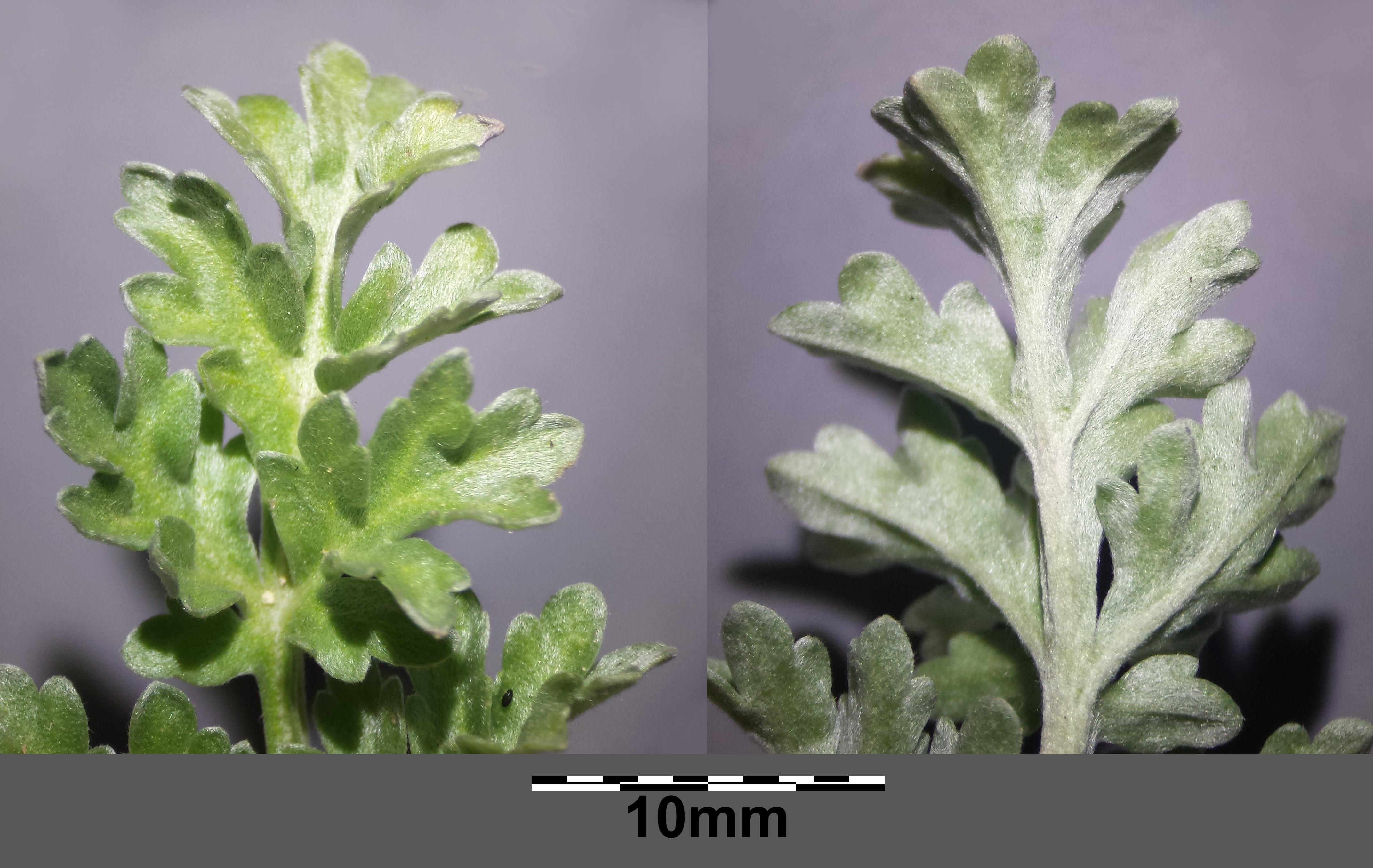 Leaf (top and bottom side) Taxonym: Artemisia absinthium ss Fischer et al. EfÖLS 2008 ISBN 978-3-85474-187-9 Location: near Niederhollabrunn, district Korneuburg, Lower Austria - ca. 350 m a.s.l. Habitat: vineyard